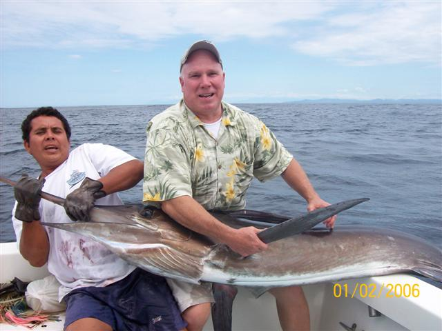 Makaira mazara caught in Playa Coco, Guanaste, Costa Rica.